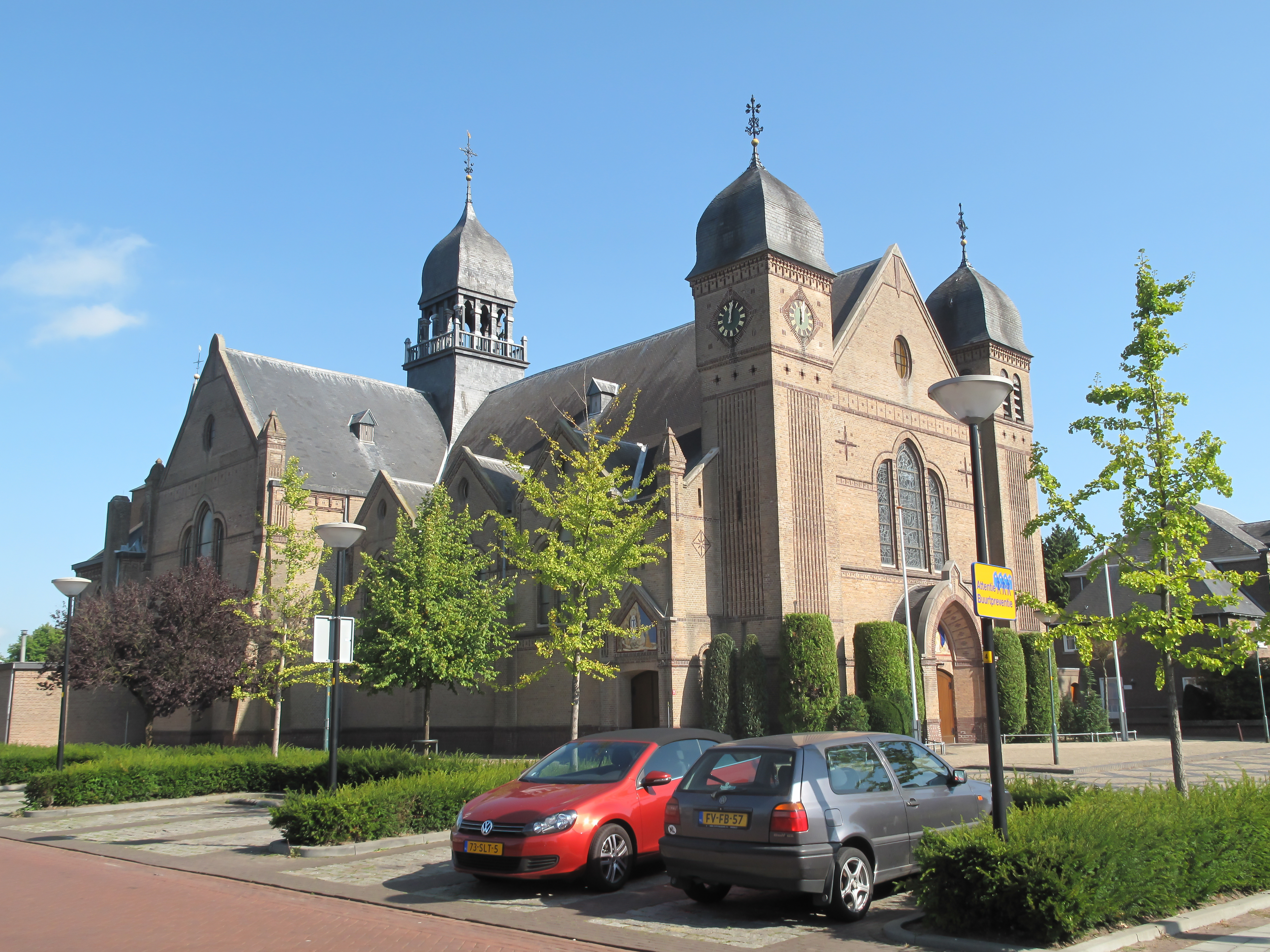 Bladel, church: de Sint Petrus Bandenkerk